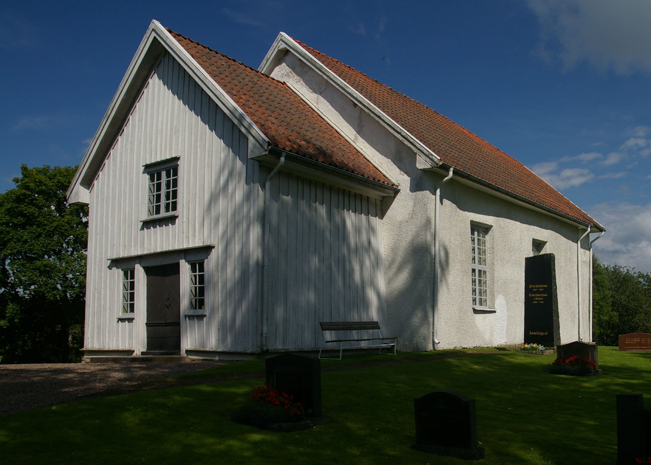 Solberga kyrka (Swedish:Church of Solberga) in Västergötland, Sweden.